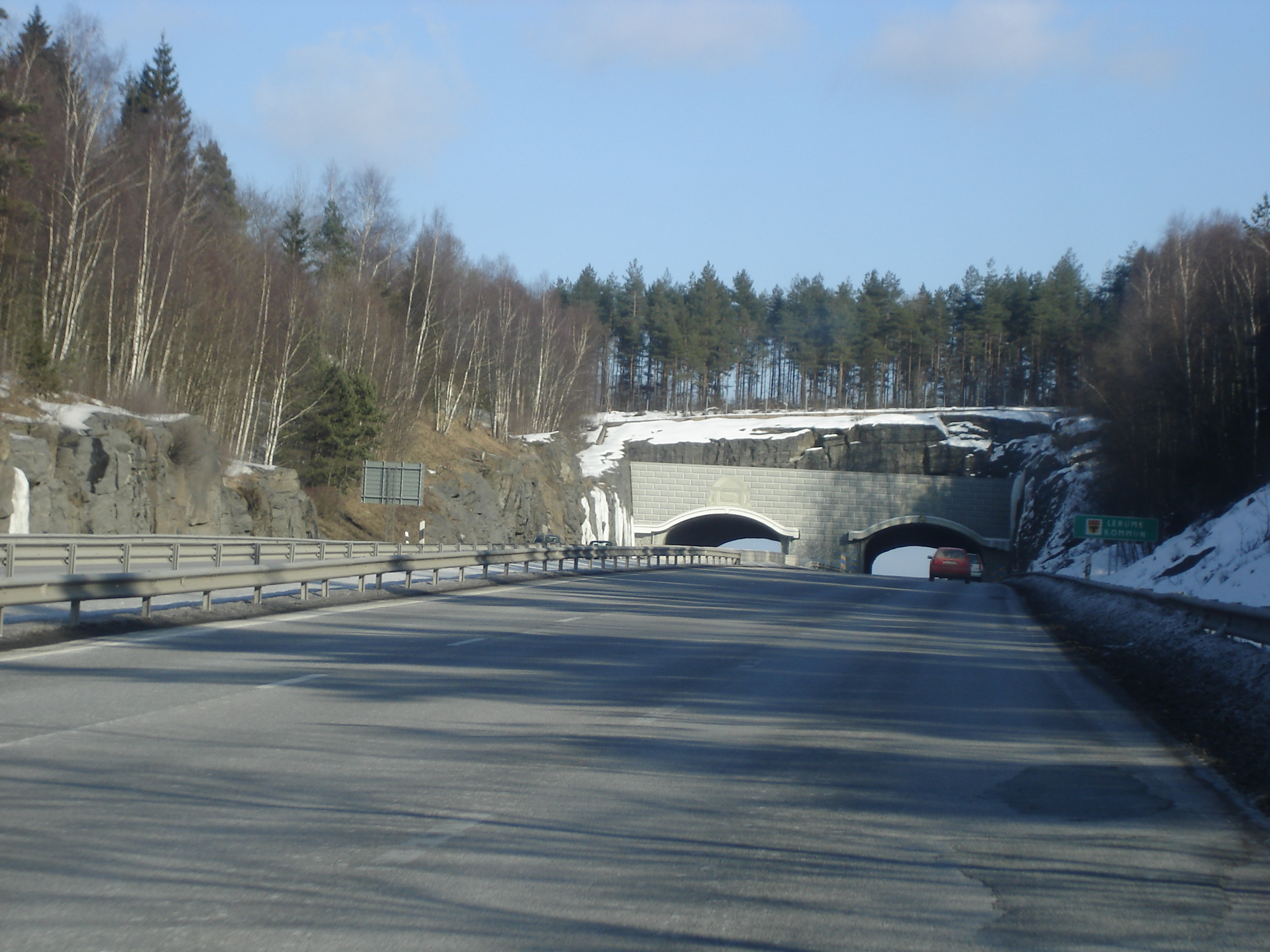 Motorway Europeway 20 in west Sweden. Photo: Sebbe (User:Sebbe) 2006-03-11